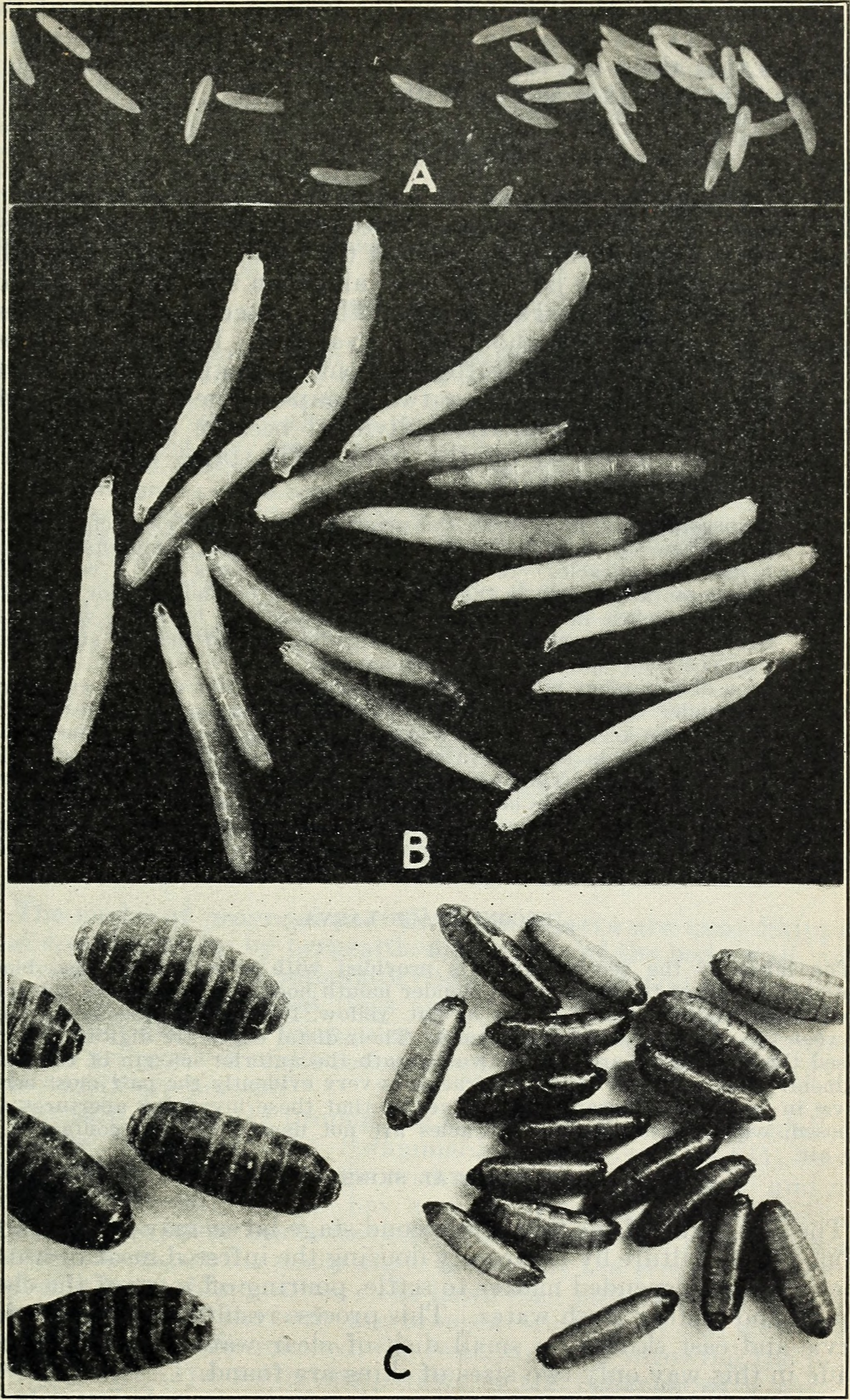 Title: The cheese skipper as a pest in cured meats Year: 1927 (1920s) Authors: Simmons, Perez, 1892- Subjects: Meat; Insect pests; Meat industry and trade Publisher: Washington, D. C. : U. S. Dept. of Agriculture Text Appearing Before Image: THE CHEESE SKIPPER AS A PEST IX CUBED MEATS 23 Text Appearing After Image: Fig. 3.—A, Eggs of Piophila casei on loan ham ; B, Migrant larva? of Piophila casci; C, Puparia of Piophila casei compared with puparia (on left) of Lucilia sericaUi, one of the common blowflies sometimes found infesting cured meats